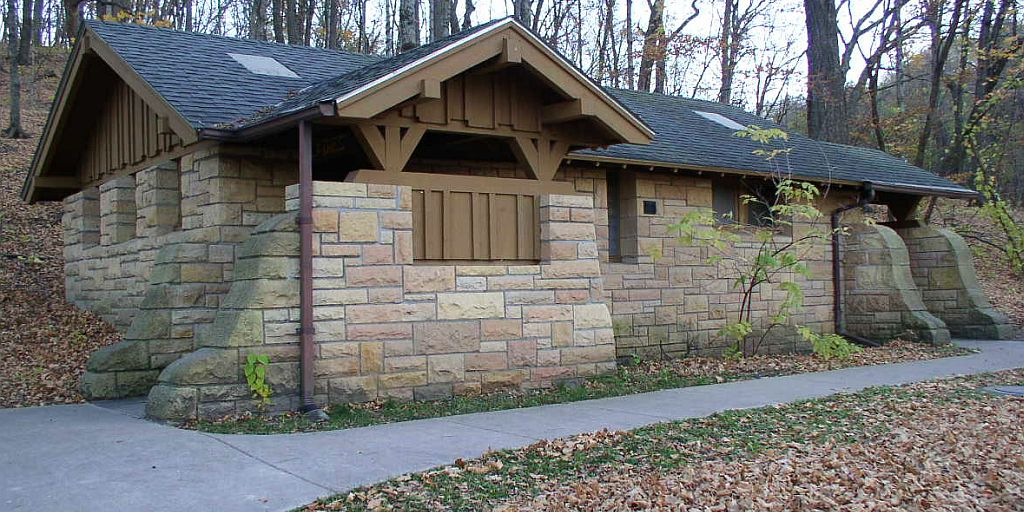 Latrine building built by the Works Progress Administration in 1939 in Minneopa State Park, Minnesota, USA.